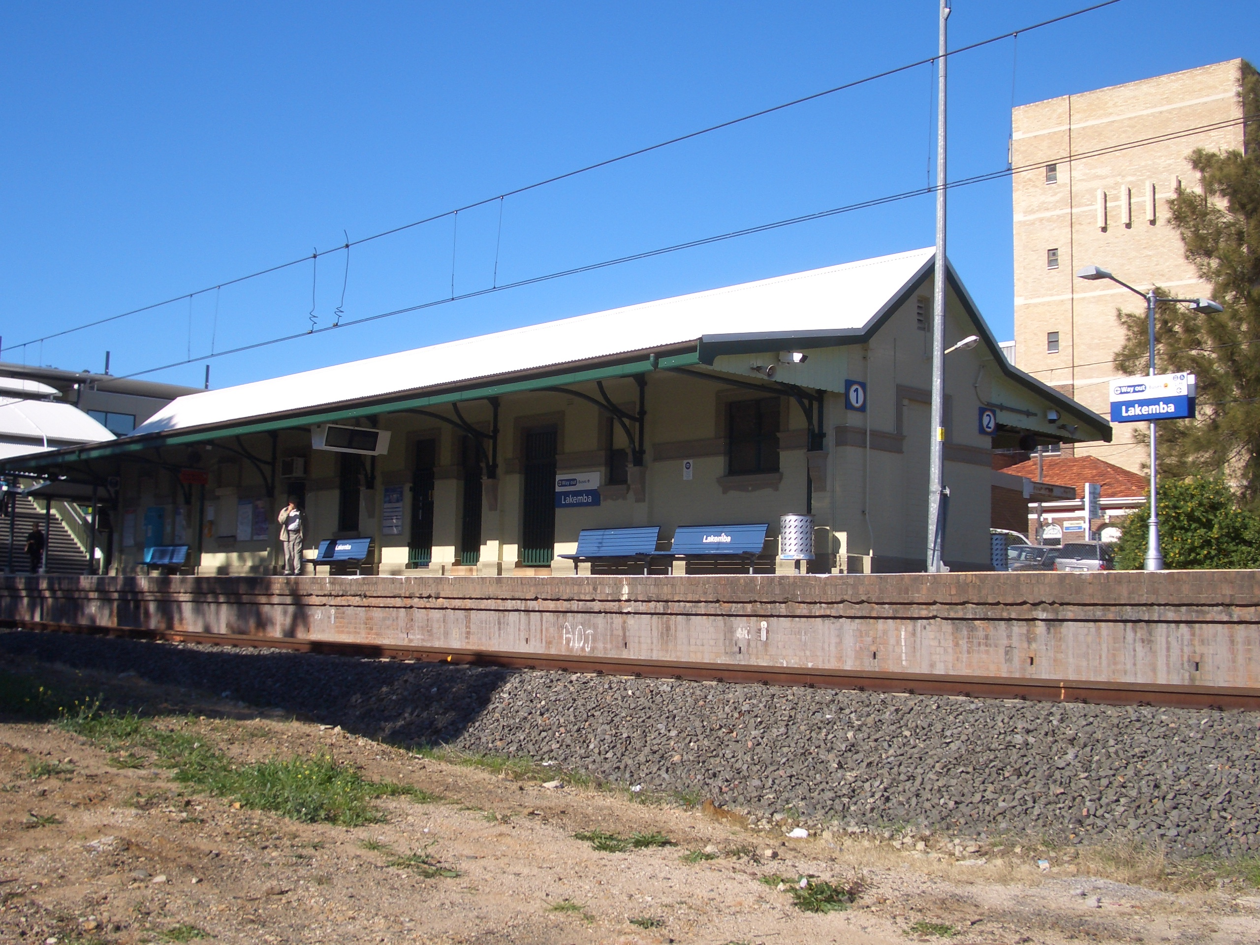 Lakemba_Railway_Station_2